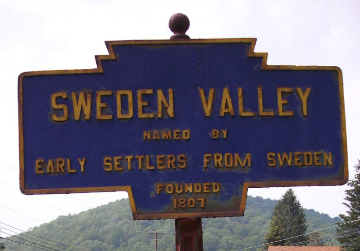 Keystone Marker for Sweden Valley, Pennsylvania, along Pennsylvania Route 44 in Sweden Township, Potter County, Pennsylvania